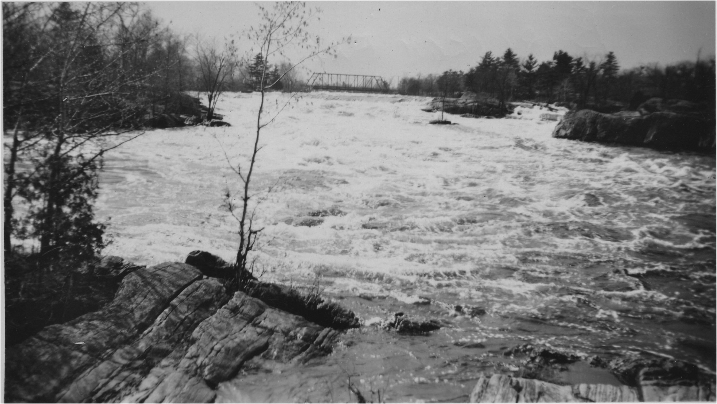 Burleigh Falls from my grandfather's negatives taken in the early to mid 1920s